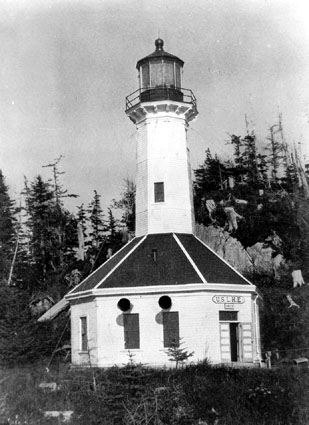 Public Domain statement here; The original 1904 Tree Point Light